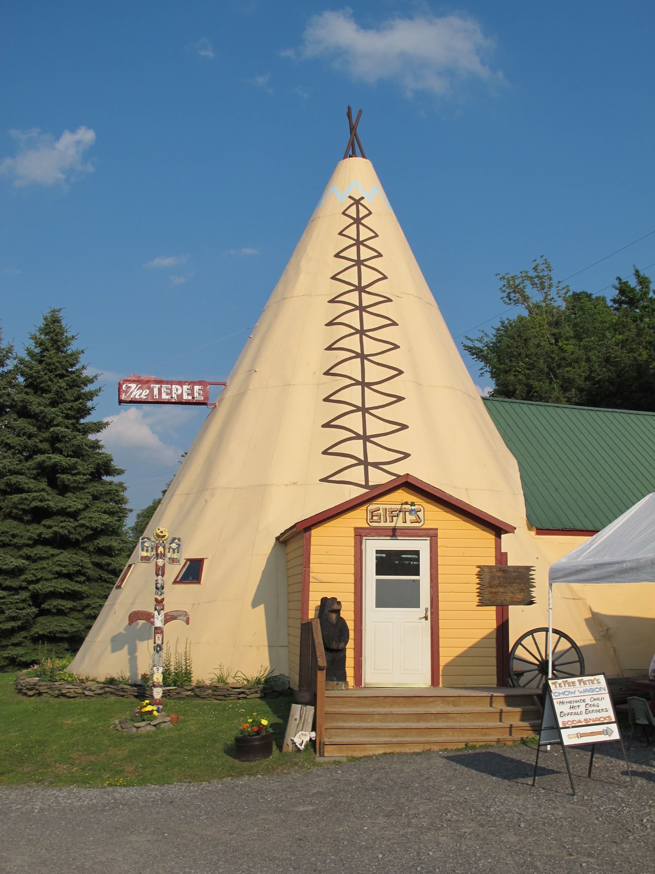 The Tepee